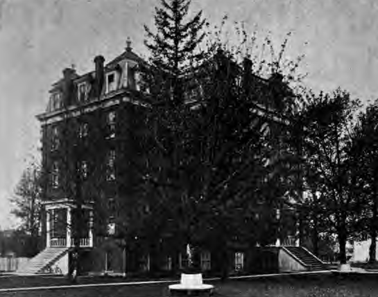 Waller Hall at Willamette University From: Horner, John B. (1919). Oregon: Her History, Her Great Men, Her Literature. The J.K. Gill Co.: Portland.